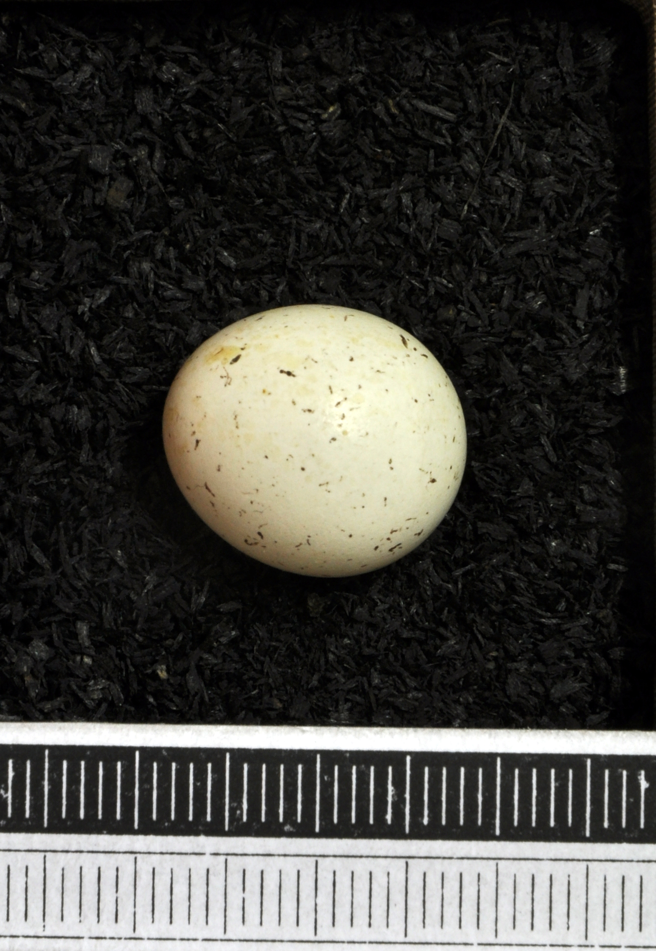 Bearded reedling Panurus biarmicus , egg, Coll. Museum Wiesbaden